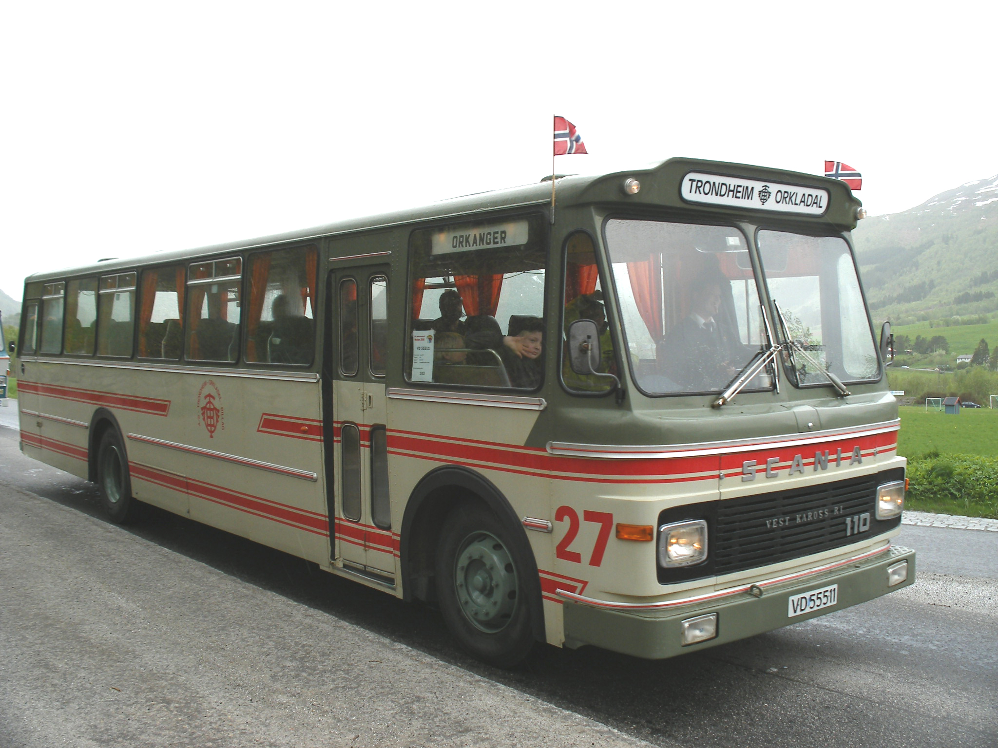 Old bus from Norway. Scania Vabis 110 chassis, Vest body. AB Trondheim Orkdal Billag.